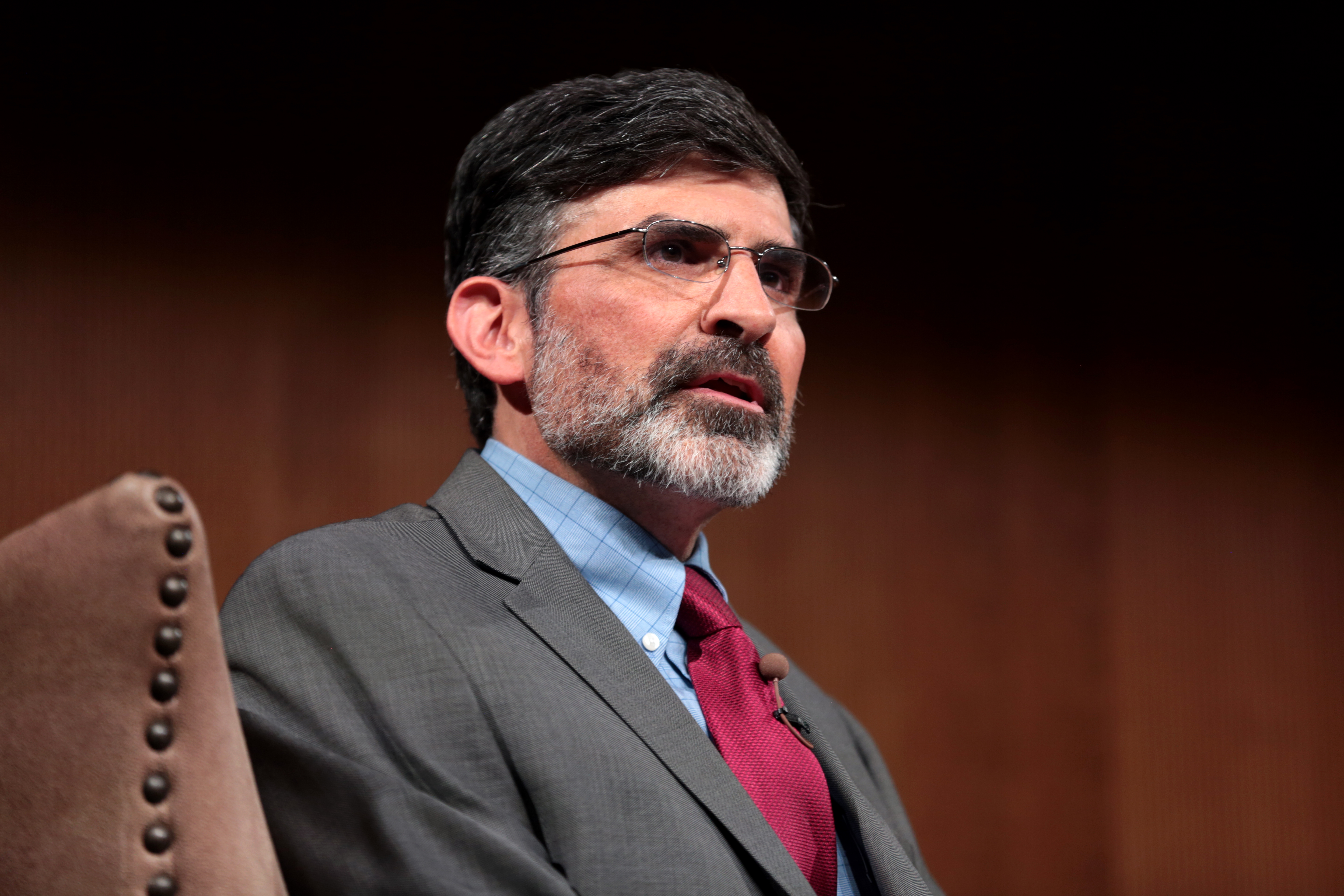 Paul Carrese speaking with attendees at the Student Pavilion at Arizona State University in Tempe, Arizona.